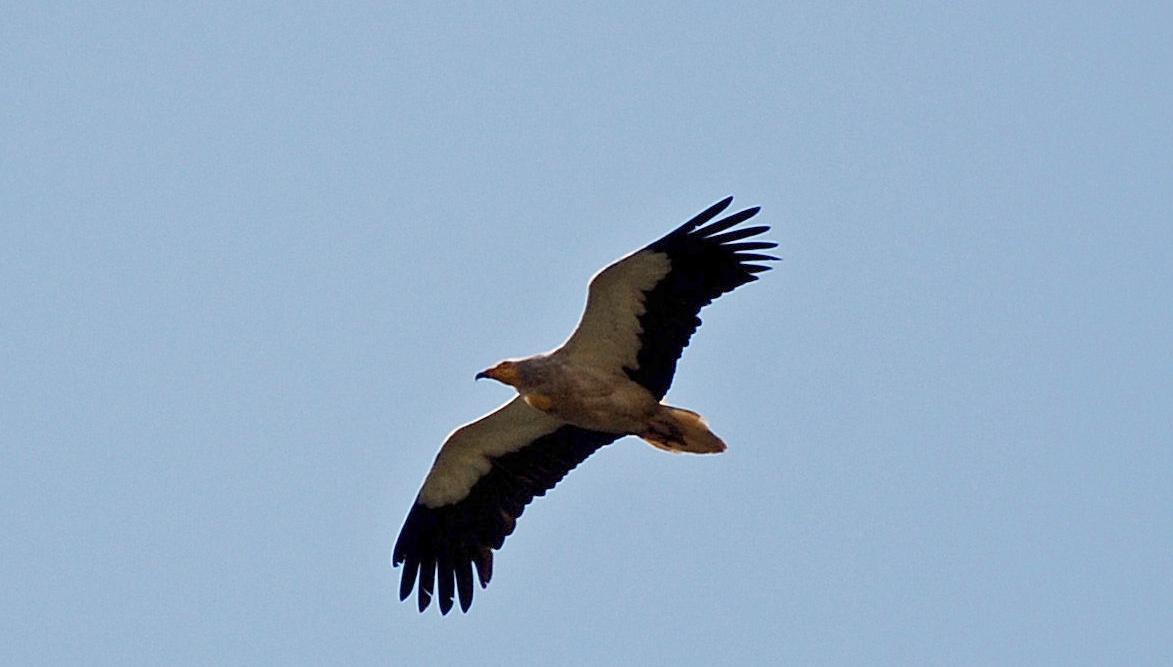 Egyptian Vulture flying over Shio-Mhvime Monastery in Georgia; took this photograph during my trip to Georgia August 2009